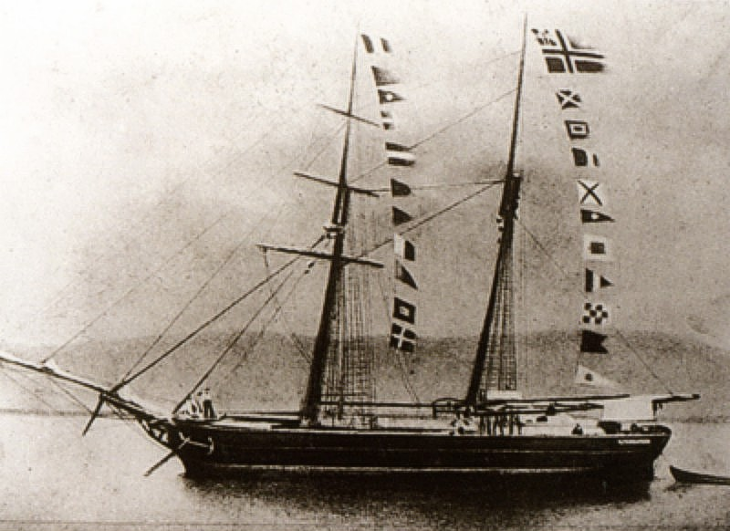 The Albatros, Thesen-owned since 1850, acquired originally for trading in the China seas